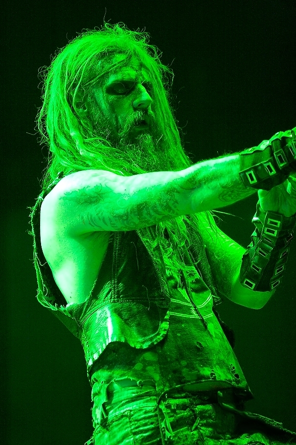 Rob Zombie at the Mayhem Festival in 2010.